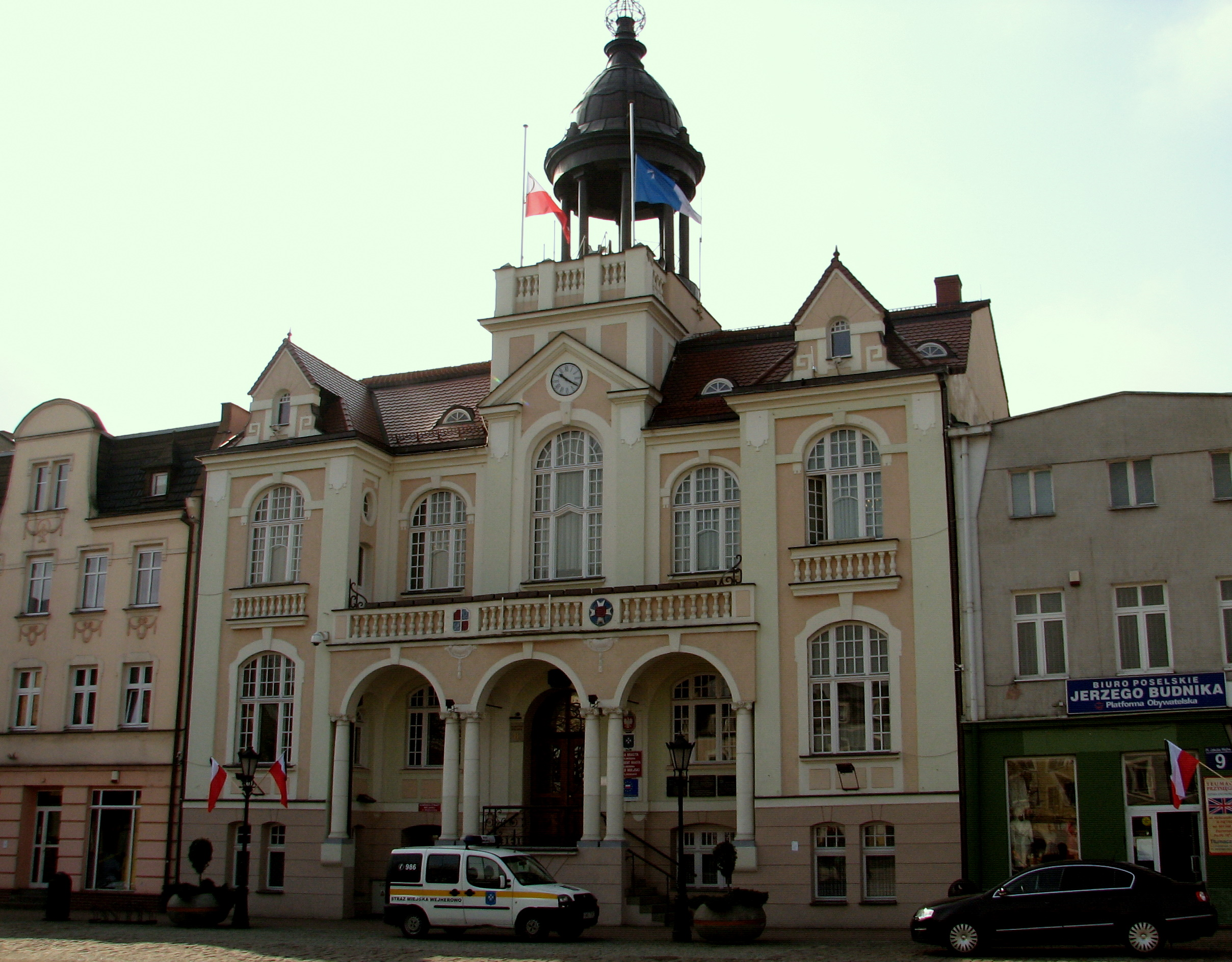 Wejherowo Town Hall. After president's plane crash 2010. "Political opinion of uploader is secret."